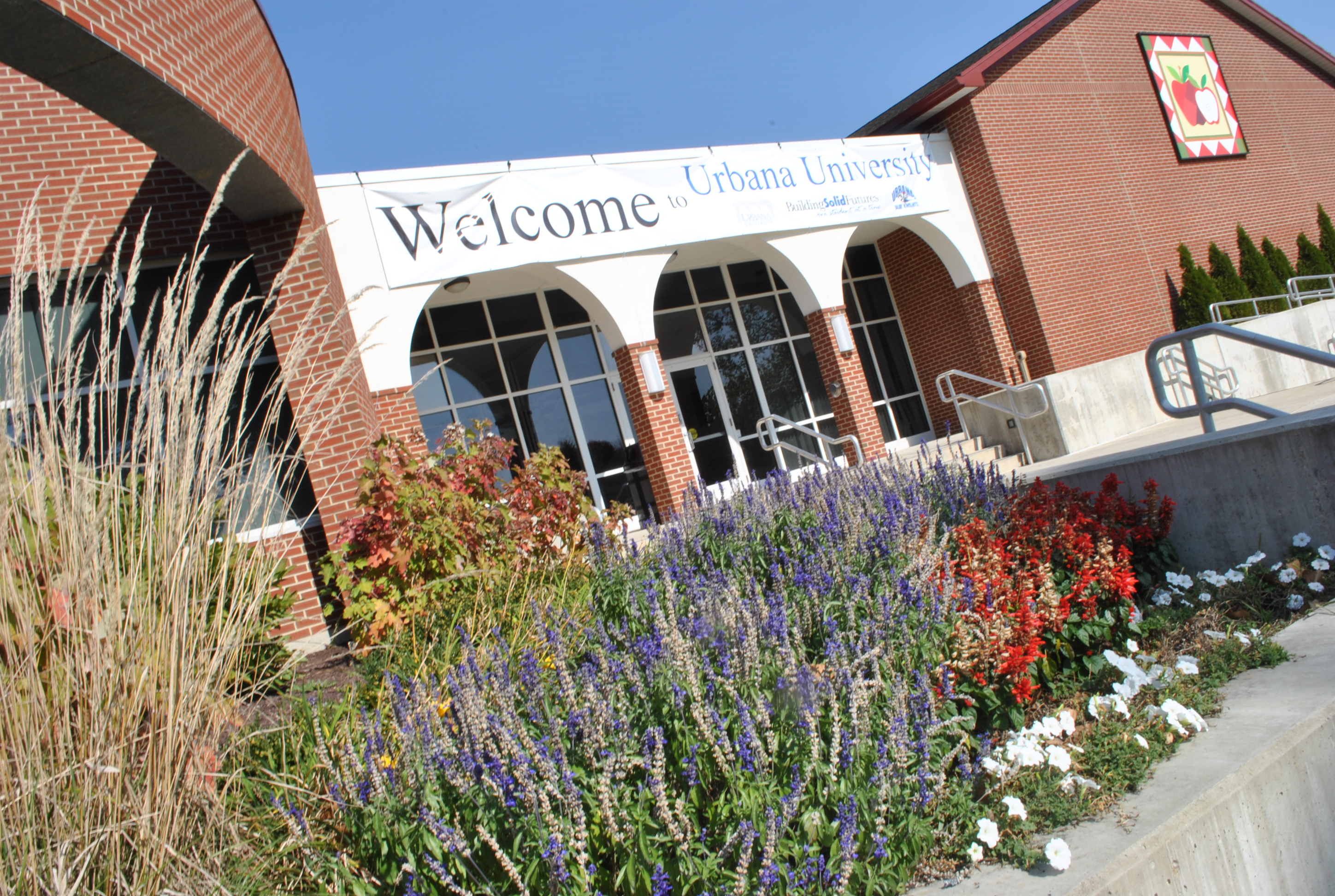 UU Campus